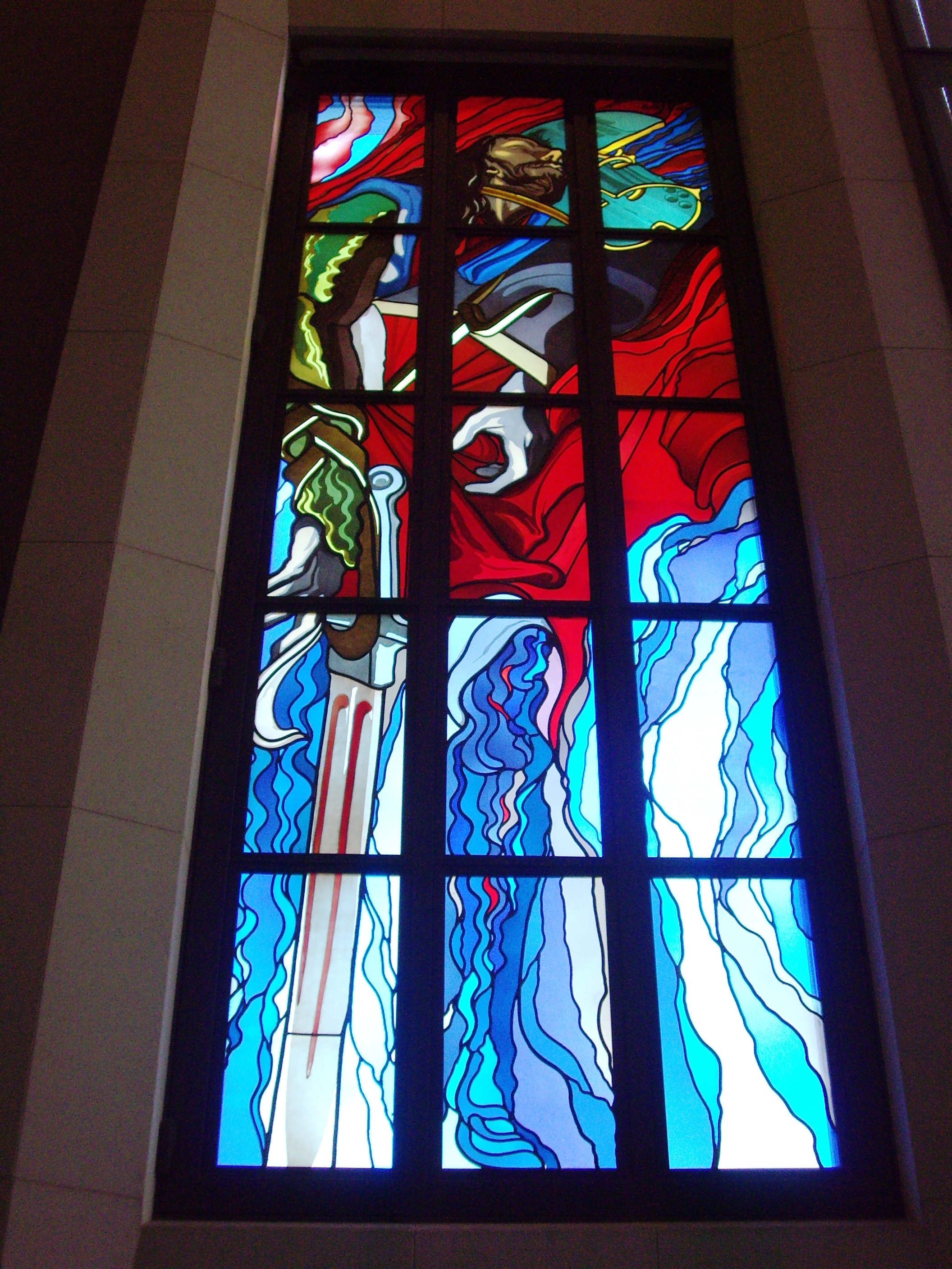 Stained glass with Henry II the Pious by Stanisław Wyspiański. Pawilon Wyspiański 2000, pl. Wszystkich Św., Kraków